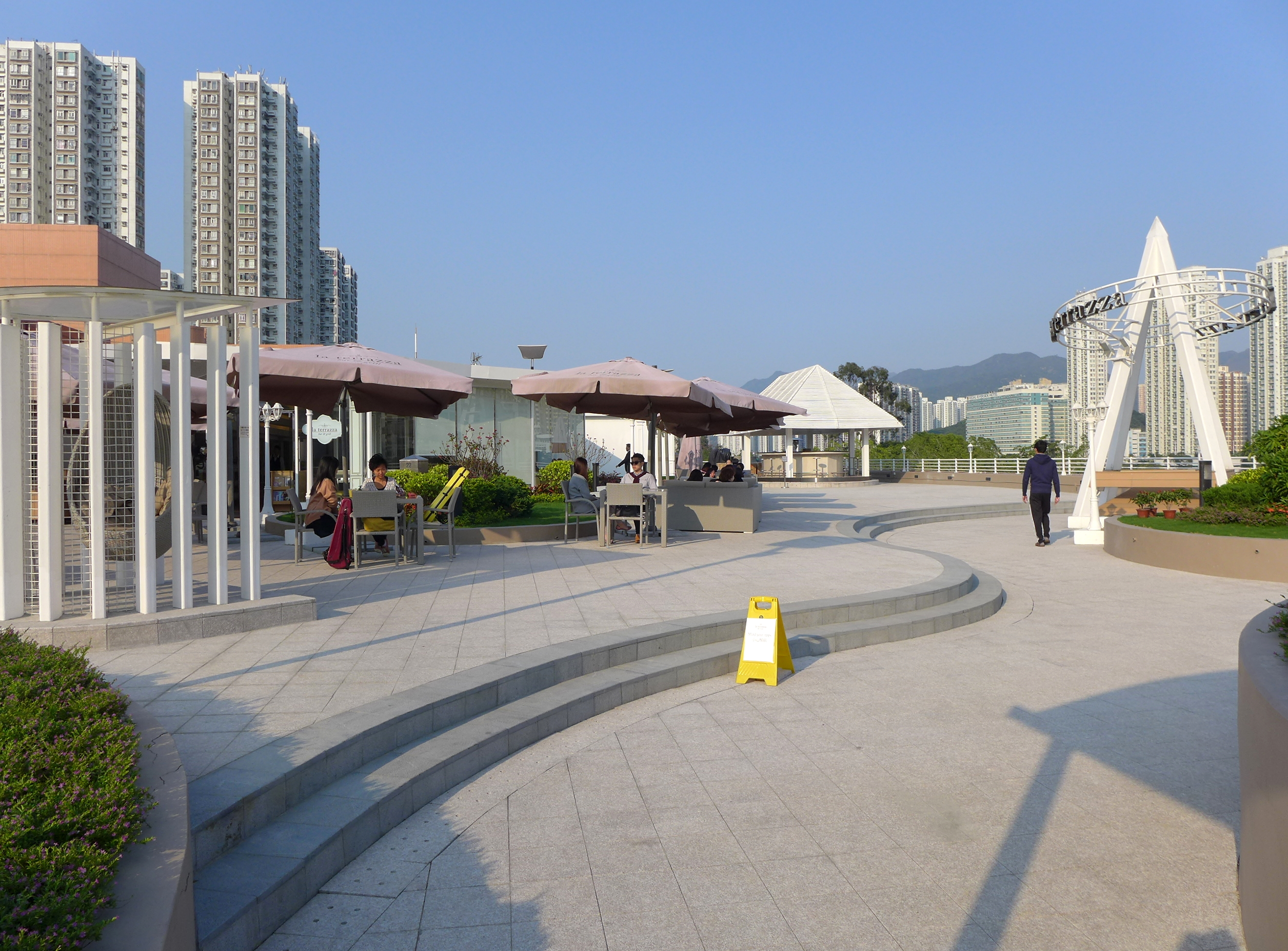 Sha Tin Town Hall Podium Restaurant